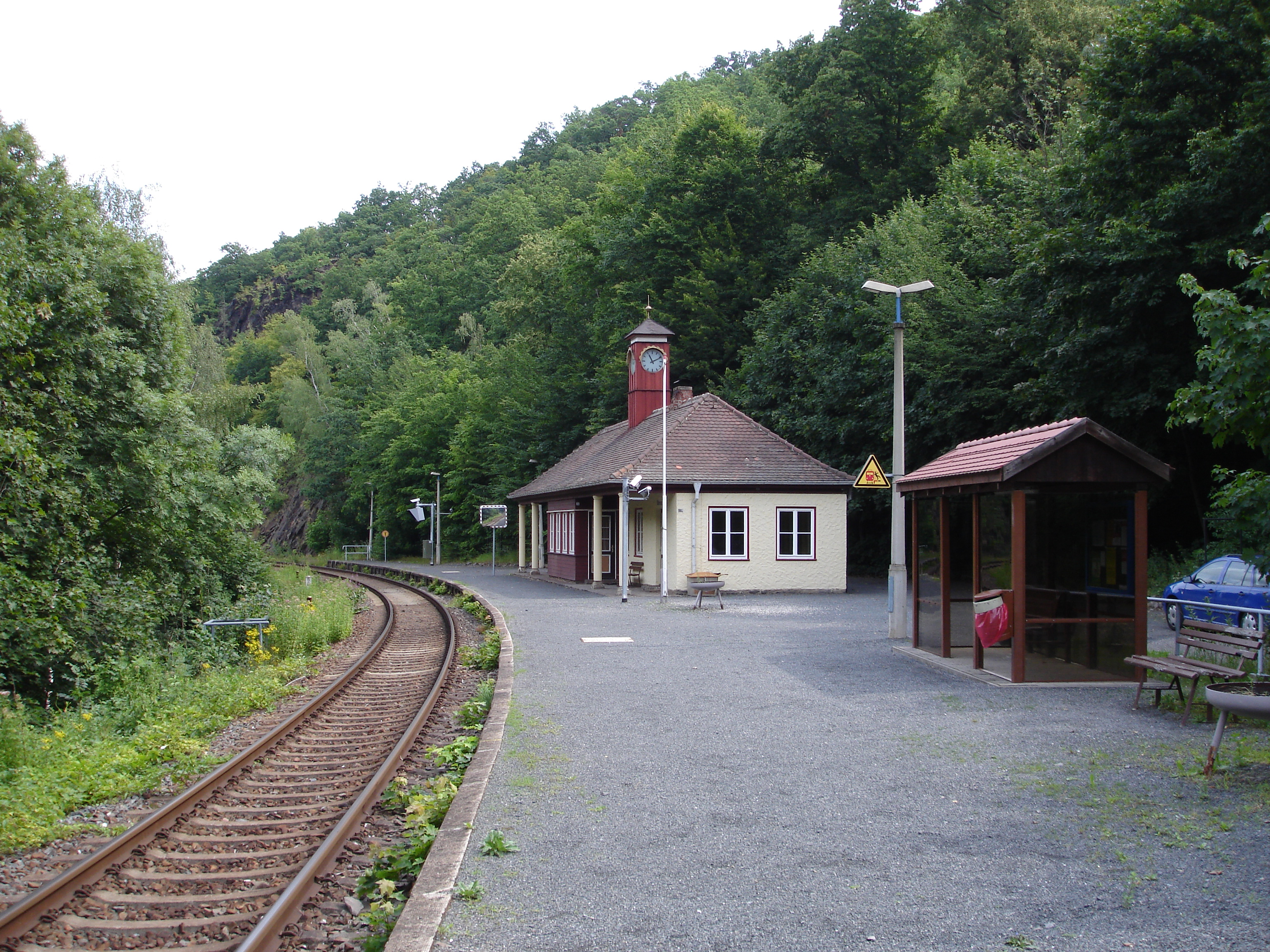 station Weesenstein, Heidenau–Kurort Altenberg railway, Saxony, Germany